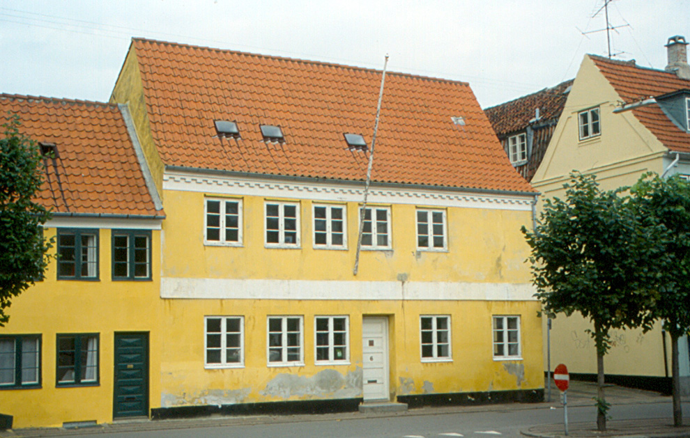 Dietrich Buxtehude (1637-1707), a famous organist and composer, lived in this house on St. Anna Gade while he worked at a church in Helsingør, in 1660-1668. Then he moved to Lübeck, where he was organist at Marienkirche, the most important church there, for the rest of his life.